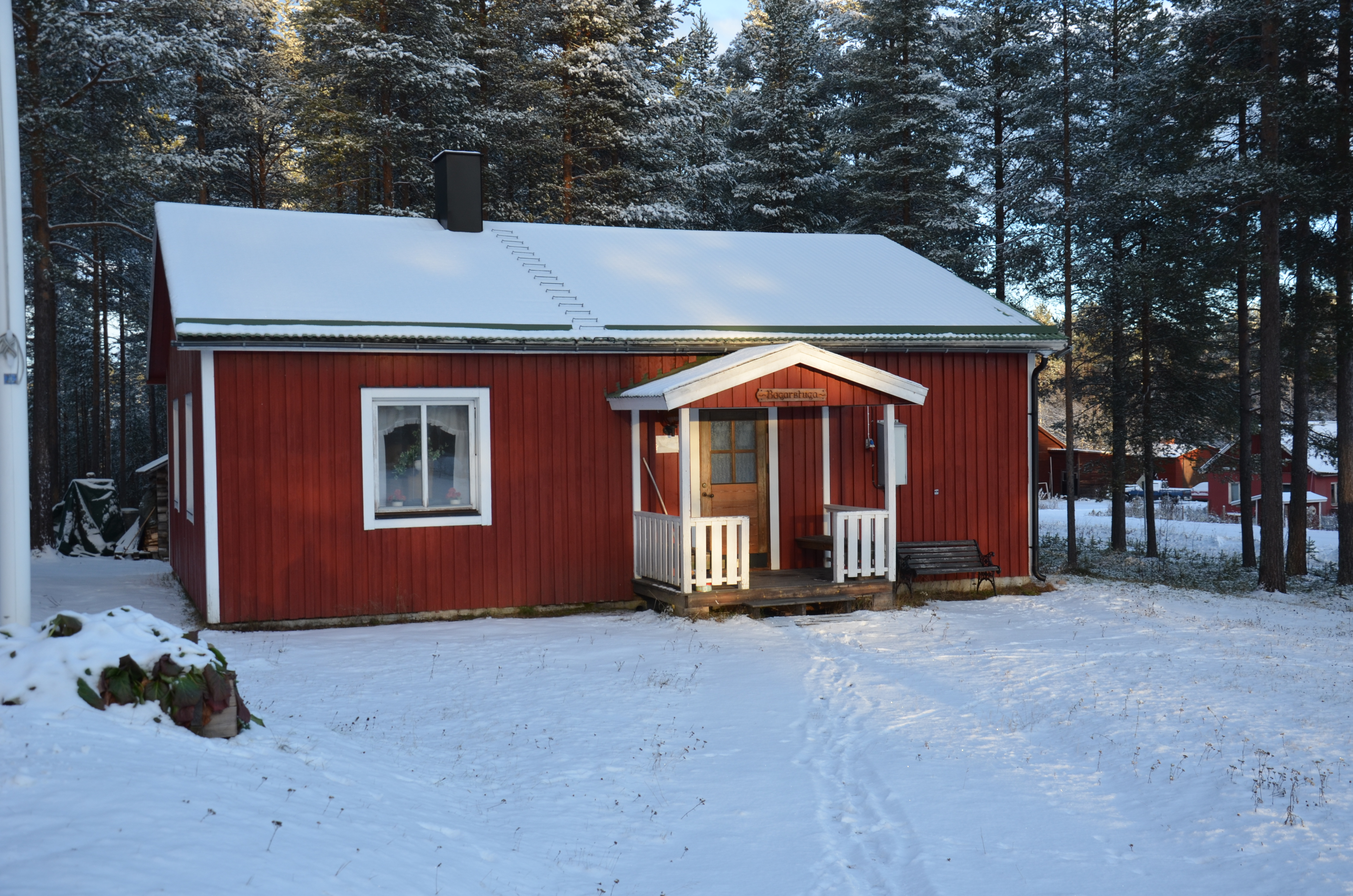 Bagarstugan vid Vuollerims hembygdsgård